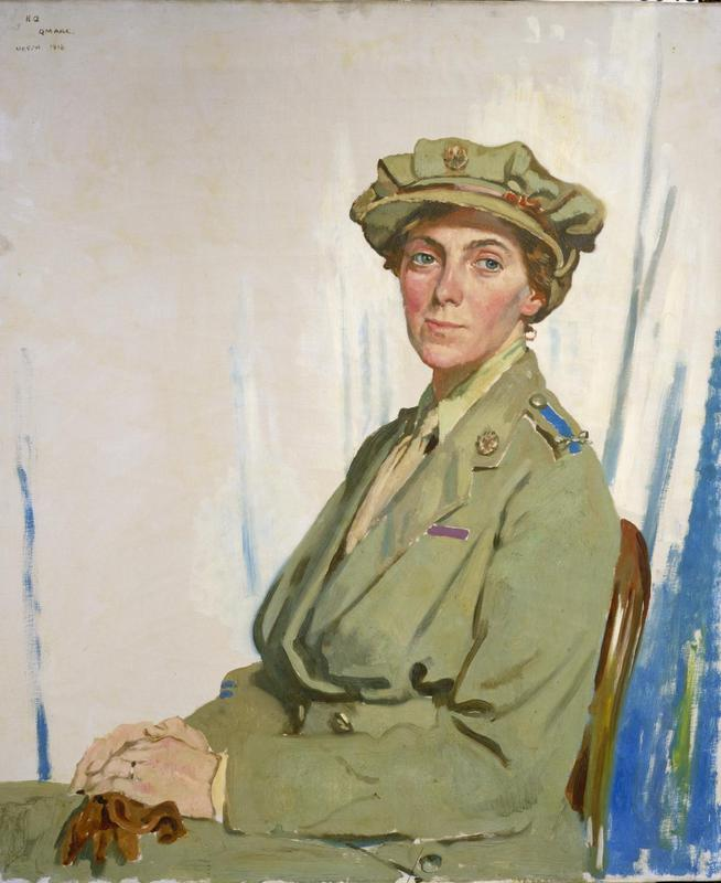 The First Chief Controller, Qmaac in France, Dame Helen Gwynne-vaughan, Cbe, Dsc image: A half-length portrait of Dame Helen in full uniform. She sits on a wooden backed chair, her face turned towards the viewer. Her hands rest in her lap, lying over a pair of gloves.